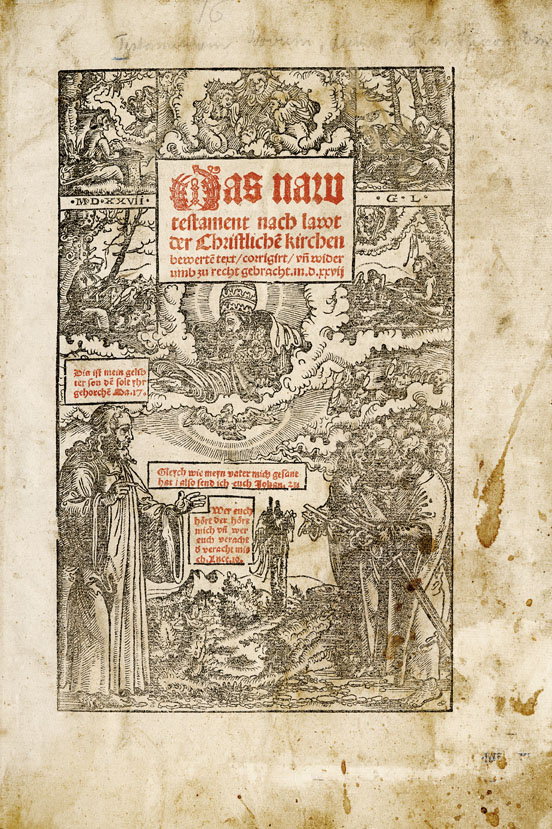 title page of the catholic bible translation of the New Testament into German from Hieronymus Emser, an opponent of Martin Luther; published 1527 in Dresden, Saxony